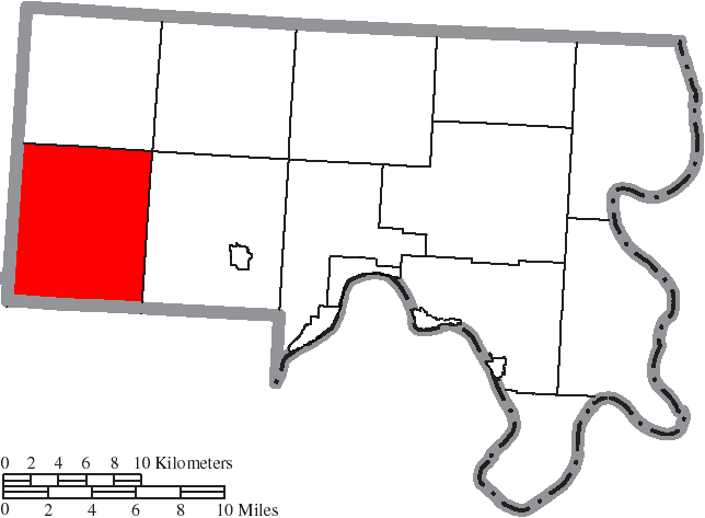 Map of the municipal and township boundaries of Meigs County, Ohio, United States, as of the 2000 census, with the location of Salem Township highlighted. Township borders are shown only in unincorporated areas in order to differentiate incorporated and unincorporated areas more clearly.